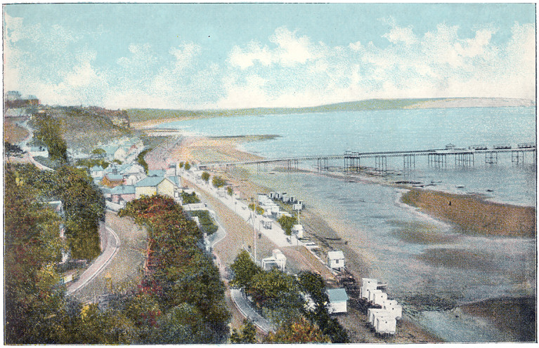 SHANKLIN ESPLANADE, FROM RYLSTONE.—This favourite view, which shews nearly the whole of Shanklin Pier, also includes in the distance the Culver Cliff. Taken from the Garden of Rylstone, overlooking the foot of the Chine, it forms a most attractive scene. The cliff pathway on the green to the right, the winding road and broad esplanade, with the wide expanse of sands, furnish a characteristic view of the principal features of Shanklin front. The level sands form a safe and pleasant bathing-ground when covered by the sea. Boating too is popular, it being within easy reach of beautiful bays in the direction of Luccombe.